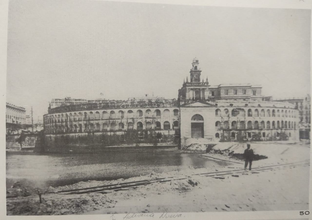 Dirección General de Aduanas (Argentina)